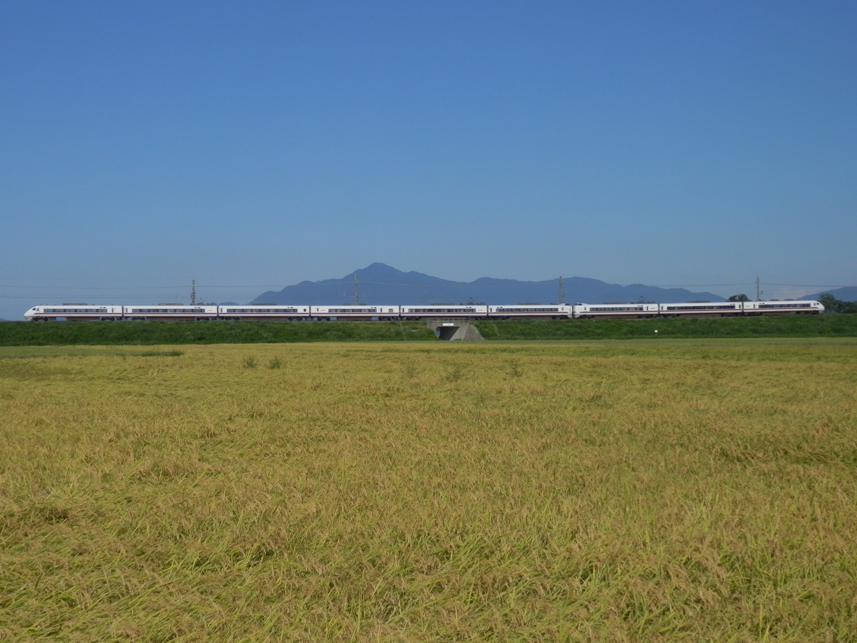 EMU of Hokuetsu Express Series 681 on a "Hakutaka" Limited Express at Kubiki